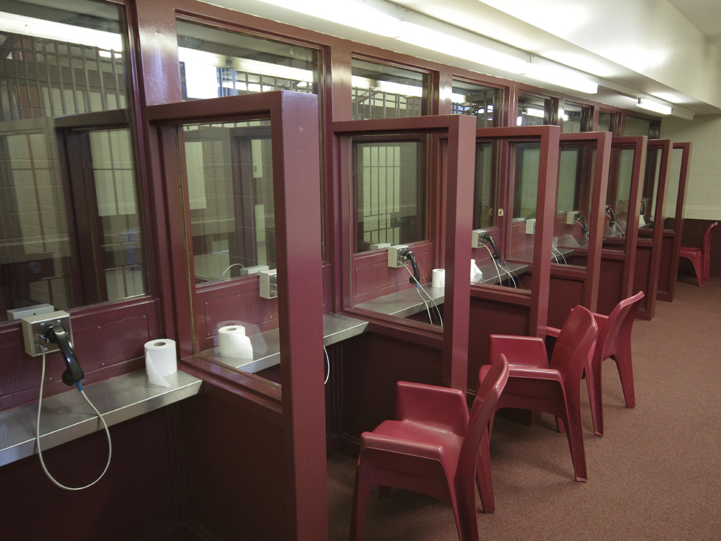 Prisoner visiting room Prisoners are often cut off from contacting the world outside of prison and likewise, family and friends can become cut off from the prisoner. Restrictive correspondence, visiting, and telephone policies and a general lack of information about where the prisoner currently all makes it very challenging to stay in contact with an Inmate Locator .